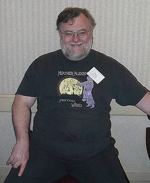 American science fiction author S. M. Stirling. Photo taken at GAFilk 2007.